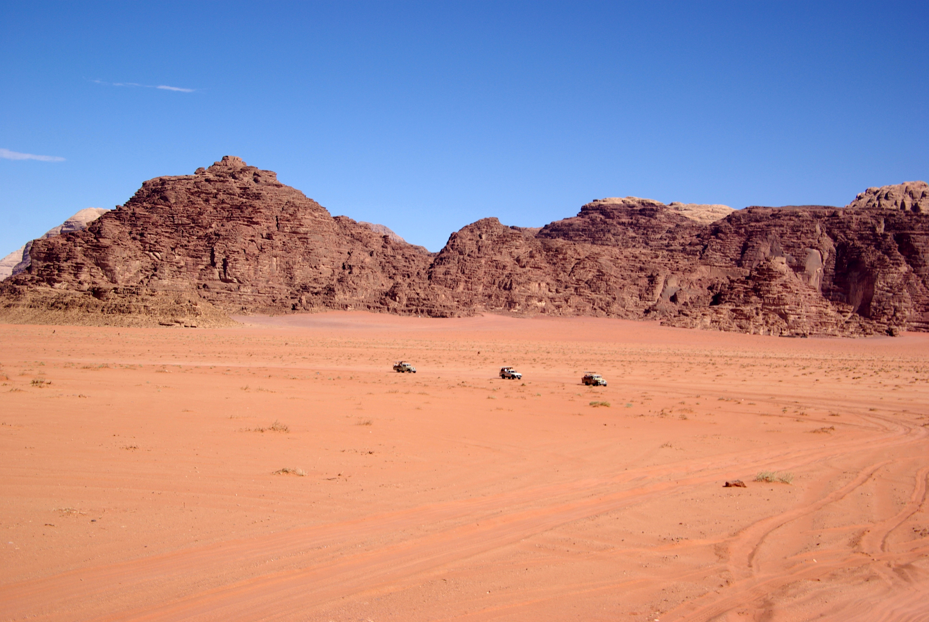 Wadi Rum